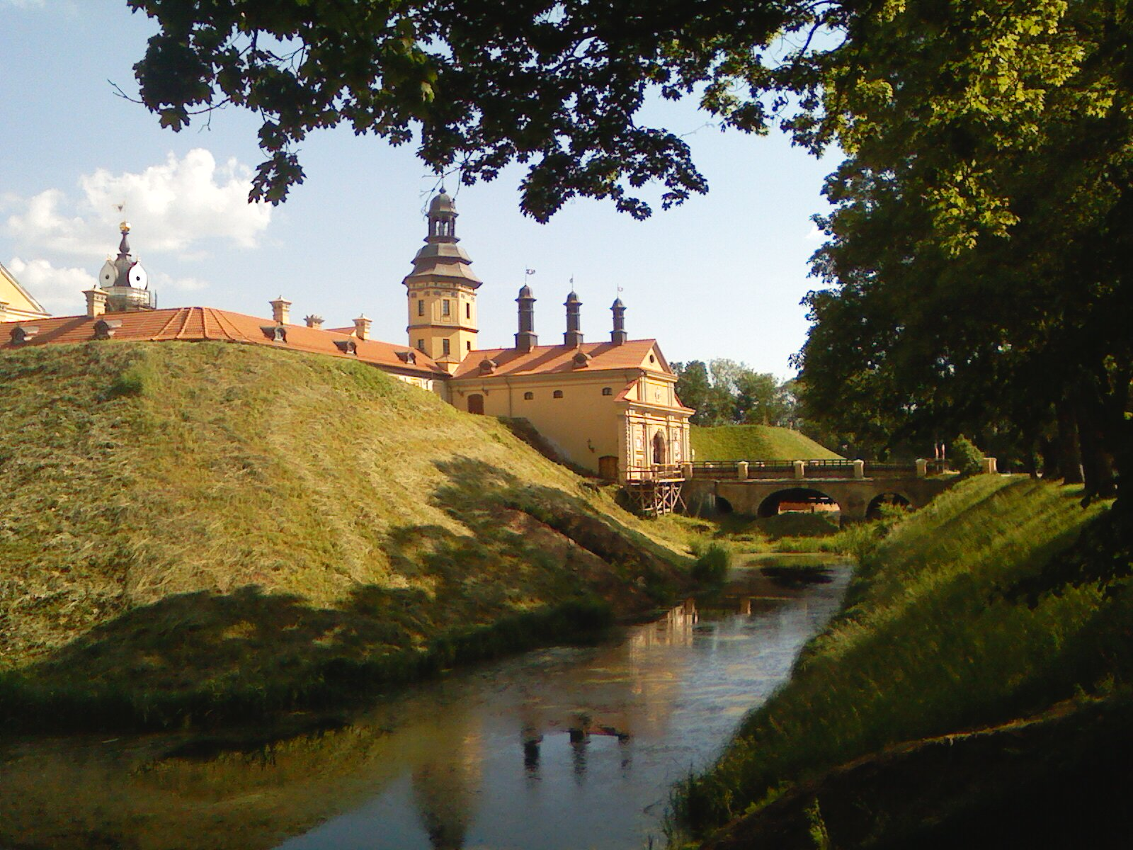 Reconstruction of the Nesvizh Castle